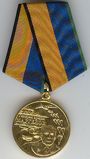 Russian Federation medal of Army General Margelov